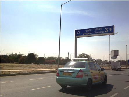 Delhi Airport Terminal 3